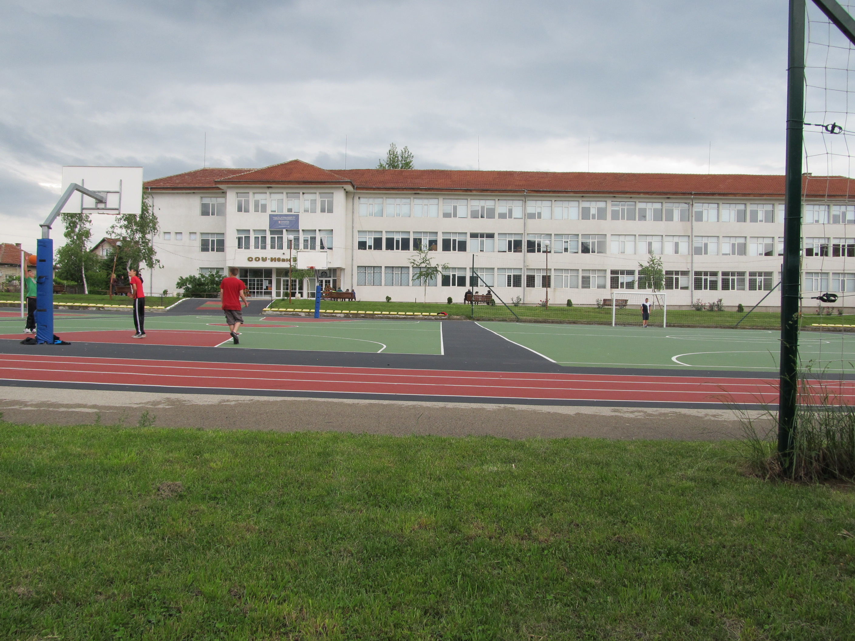 Gymnasium